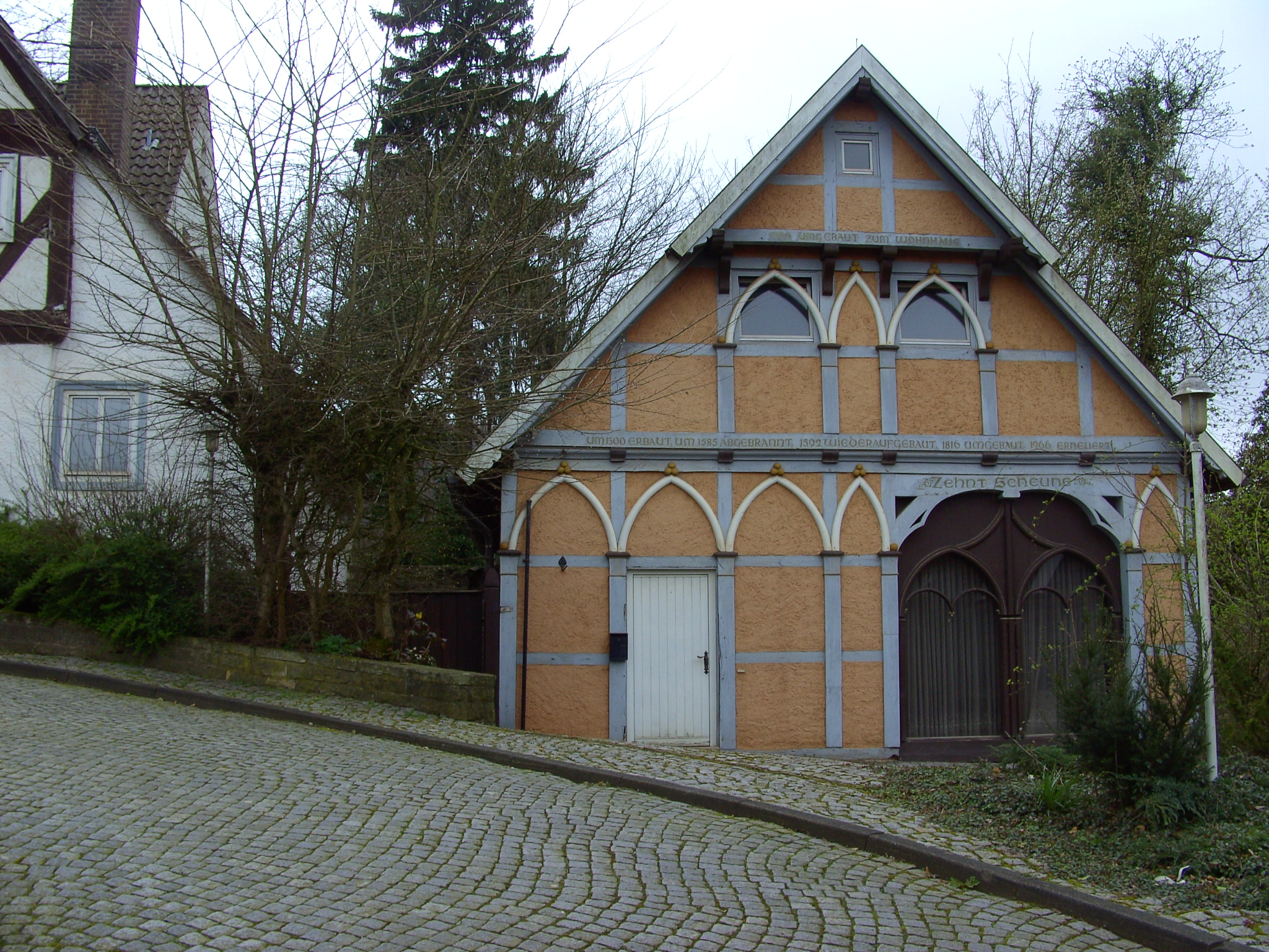 Arenburg castle courtyard with tithe-owner's barn